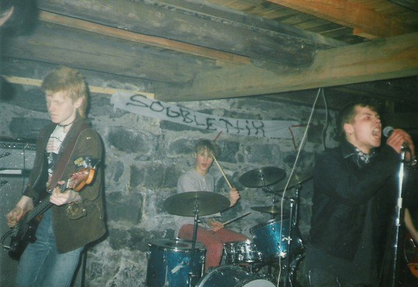 First consert by the Icelandic punk rock band Sogblettir in 1987